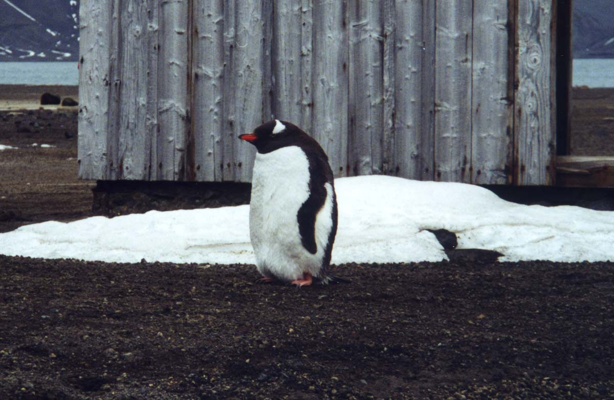 Photo of Pygoscelis papua (gentoo penguin) molting on Deception Island, Antarctica